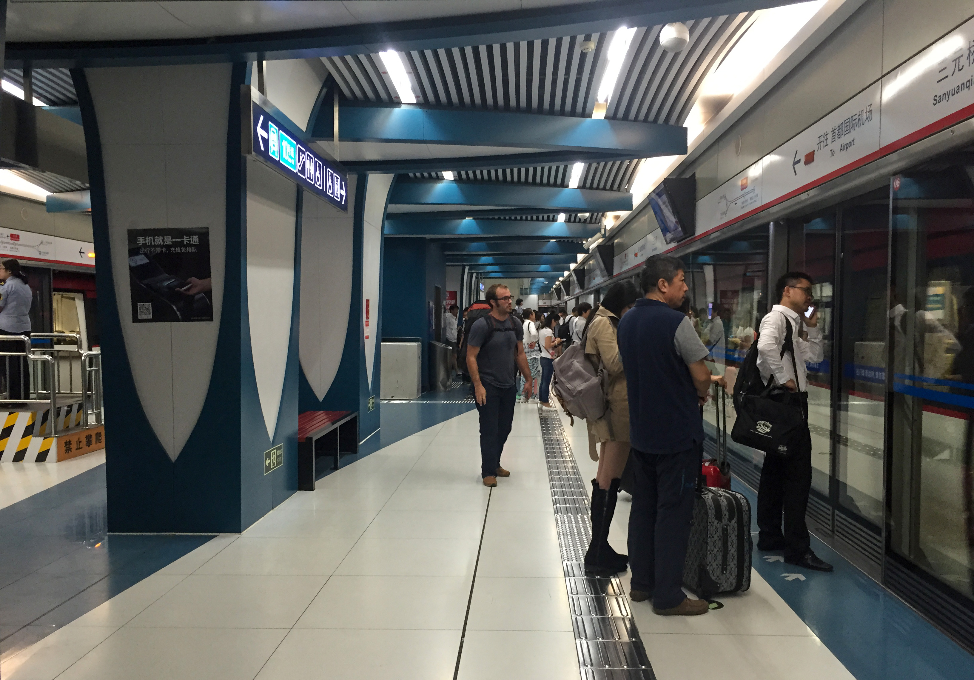 The public transport access from northern Haidian to the airport is still inconvenient, so passengers have to detour via downtown... Even an E route would matter!